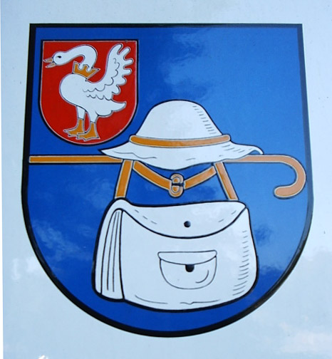 Historical coat of arms of Wandsbek at the Stormarnhaus, the seat of the Hamburg district administration Wandsbek.